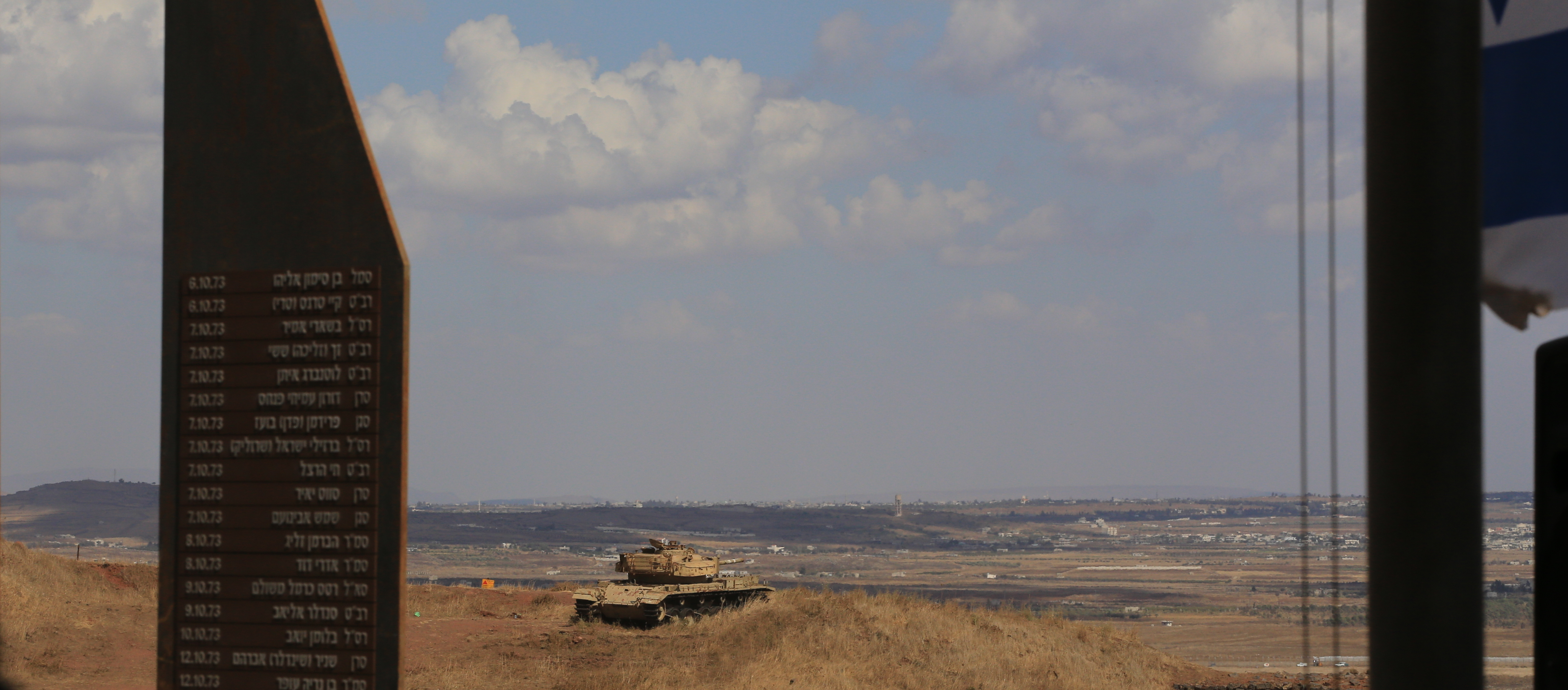 Valley of Tears - 40 years to Yom Kippur War in Golan Heights